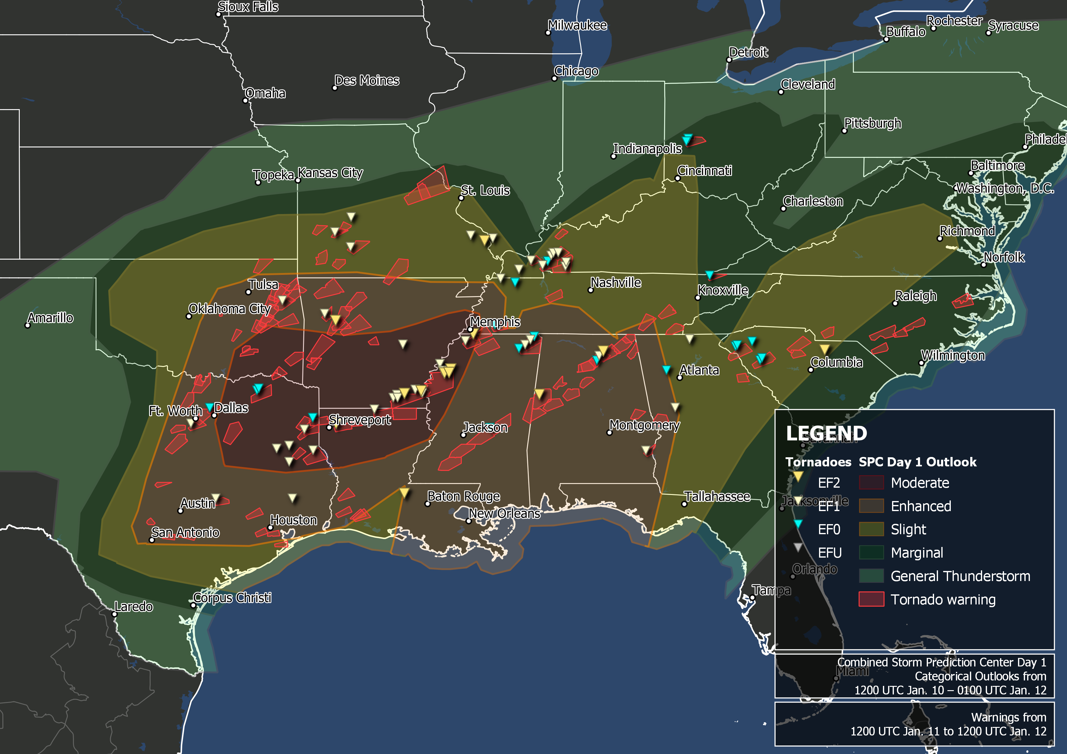 Map of tornado warnings issued by the National Weather Service between January 10 and January 11, 2020, over the southern United States and tornadoes confirmed and surveyed by the National Weather Service. Hail reports received by the Storm Prediction Center between January 10-11 are also denoted. Map produced in QGIS with border outlines from the United States Census Bureau. National Weather Service warning outlines available from the Iowa Environmental Mesonet and tornado data available from the National Weather Service. Hail data from the Storm Prediction Center.